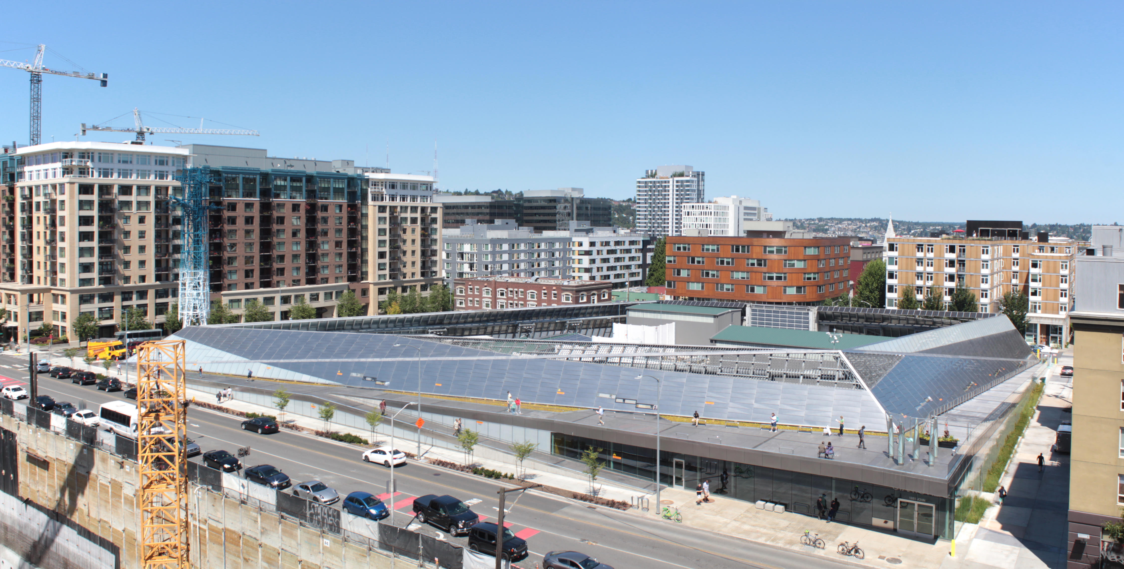 The Denny Substation, a new electrical substation and community center in Seattle, seen on its opening day (July 20, 2019).